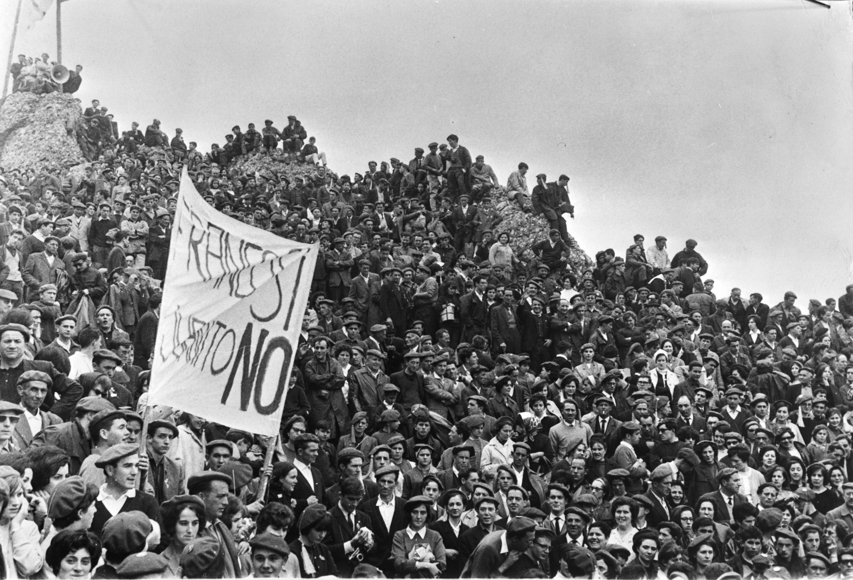 Carlist gathering of Montejurra (1969)